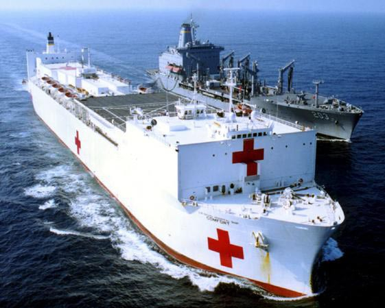 USNS Comfort returning from New Orleans.